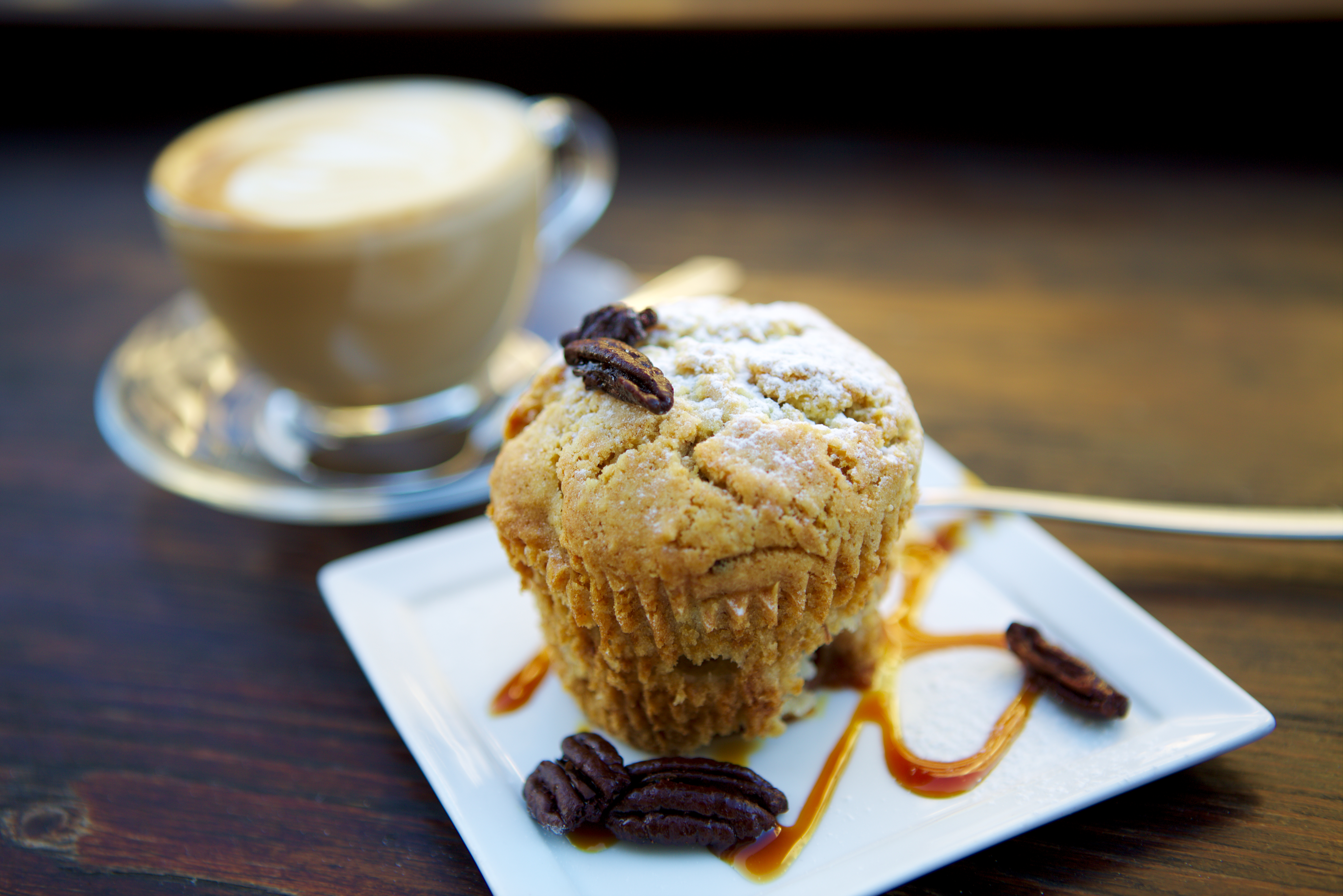 A muffin with pecan nuts and a cup of cappuccino.